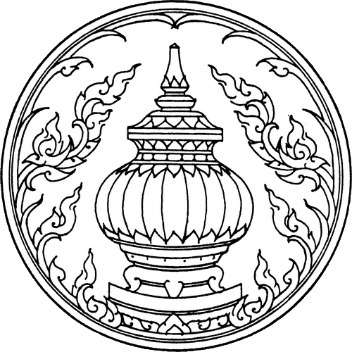 Provincial seal of Nonthaburi province.